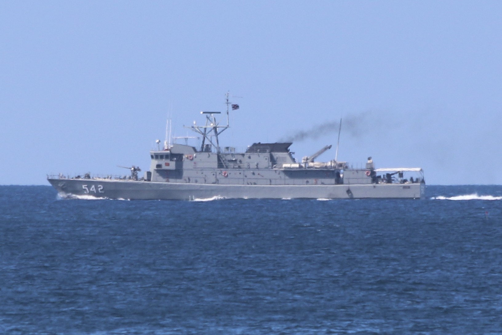 HTMS Klang (PC 542) - photographed off the coast of Phuket, Thailand.